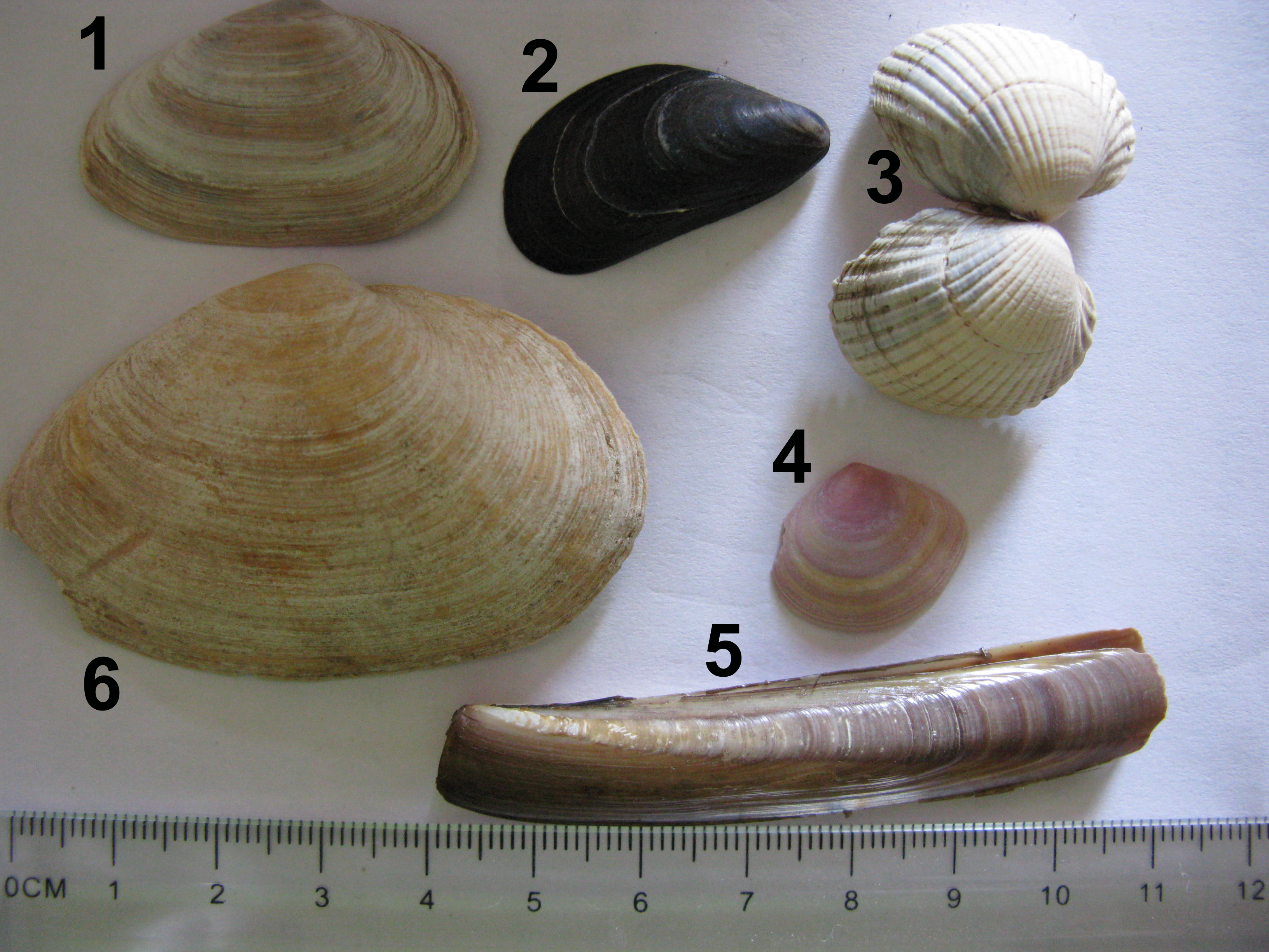 Typical molluscs of the Baltic Sea, are according to numbers as follows: 1 = Mya arenaria (smaller) 2 = Mytilus edulis 3 = Cardium edule 4 = Macoma balthica 5 = Ensis sp 6 = Mya arenaria (larger)